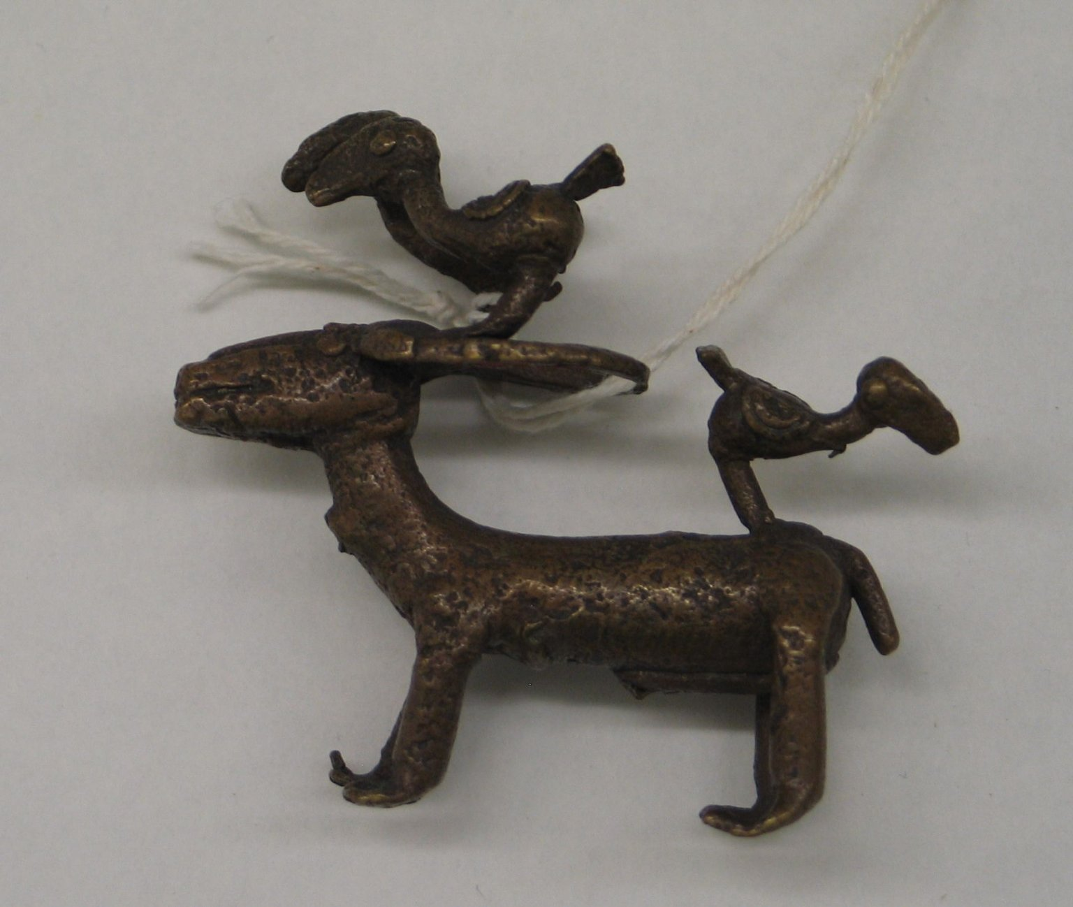 Storage Inventory Project